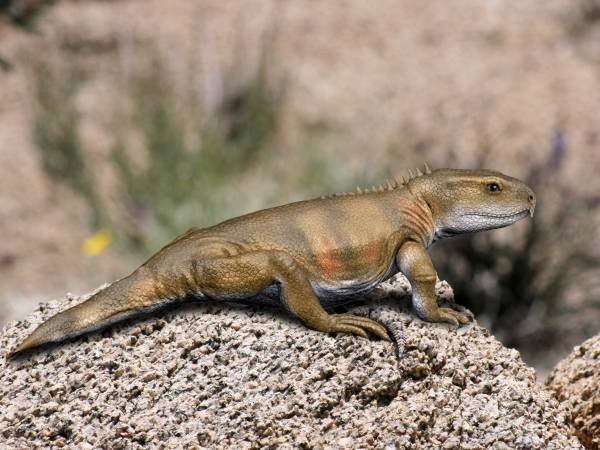 Life reconstruction of Priosphenodon avelasi